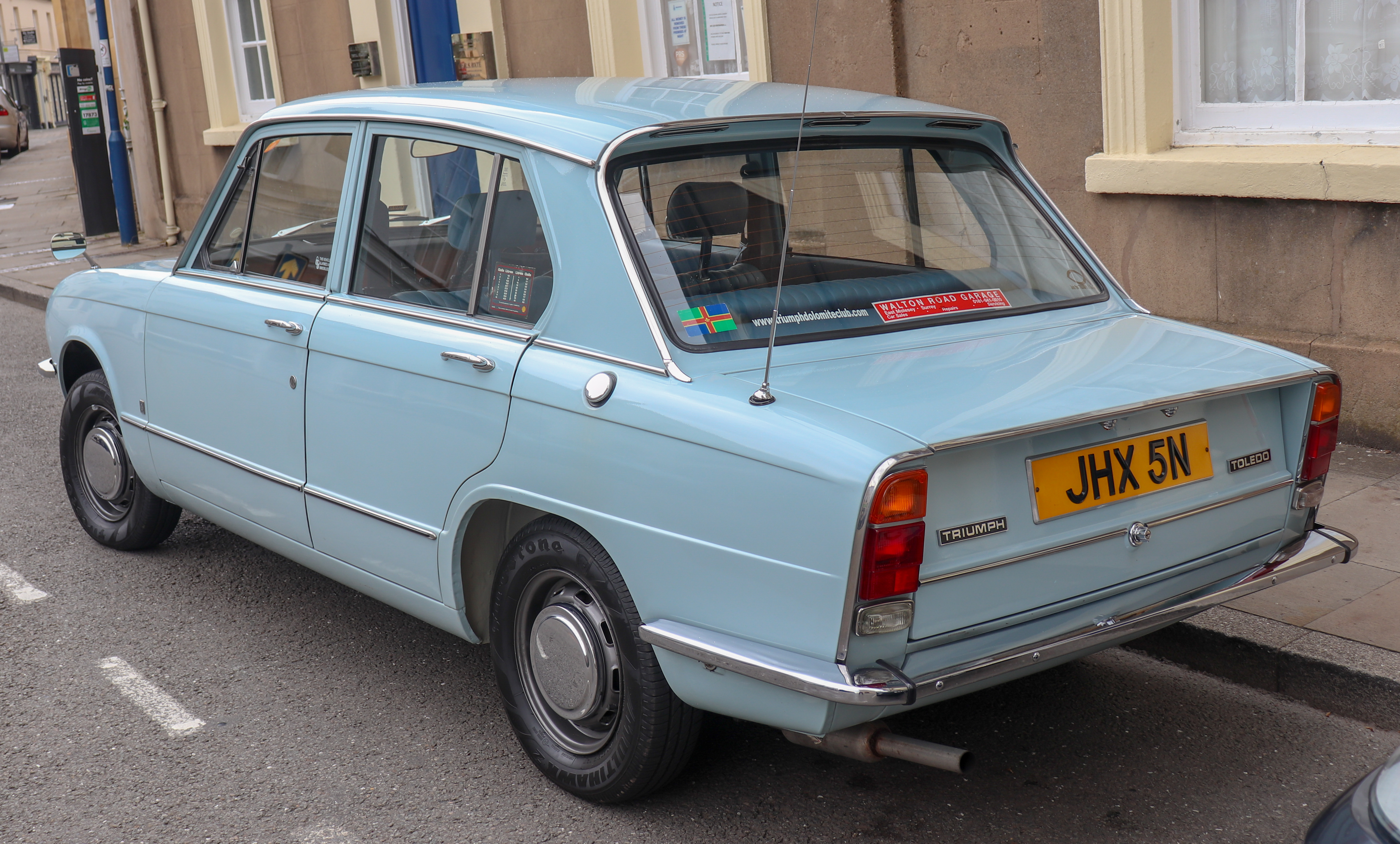 1975 Triumph Toledo 1.3 Rear Taken in Warwick